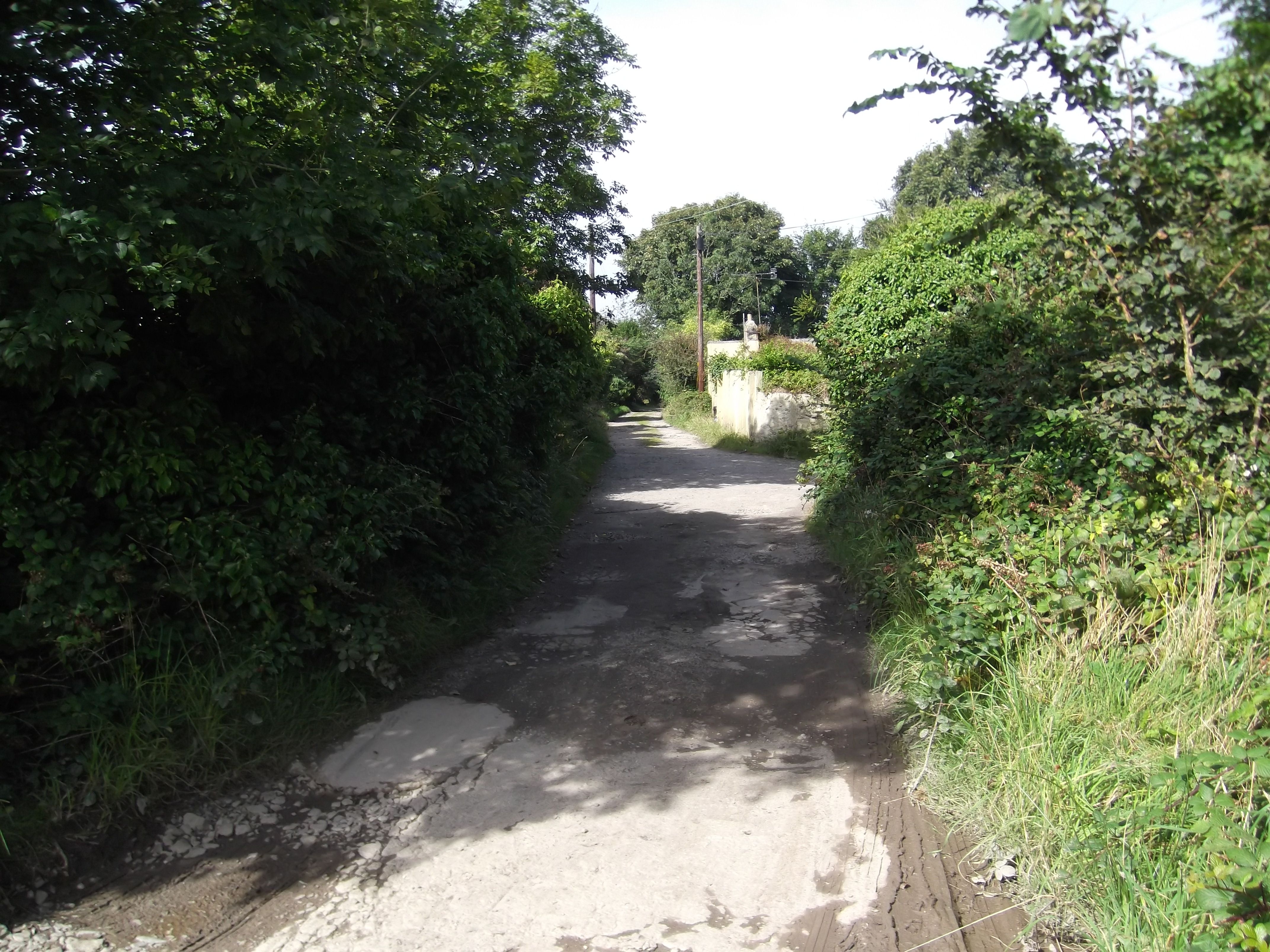 Portreath Tramroad near St Day, Cornwall, England